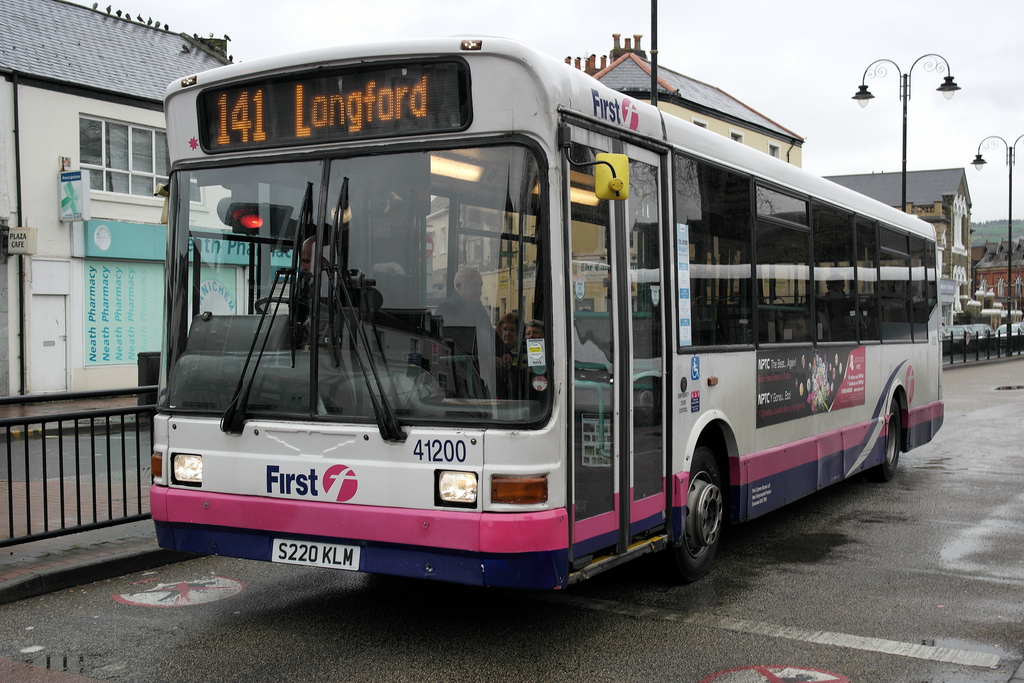 Marshall Capital-bodied Dennis Dart SLF in Neath in April 2014.